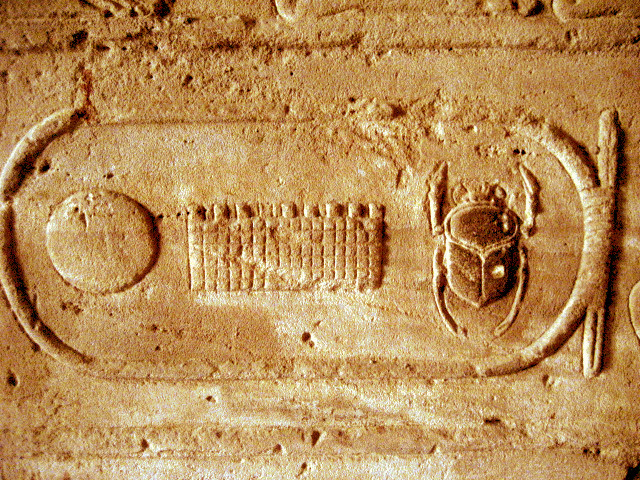 hieroglyphic Egyptian cartouche from Karnak temple in Luxxor